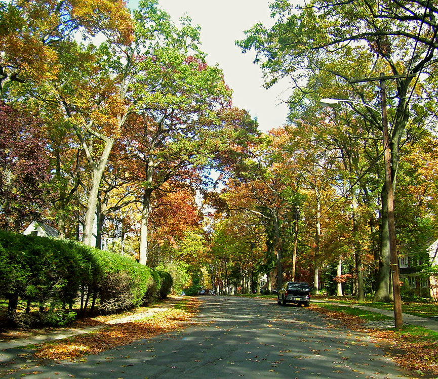 Photographed near Surrey Road by Daniel Case 2006-10-29